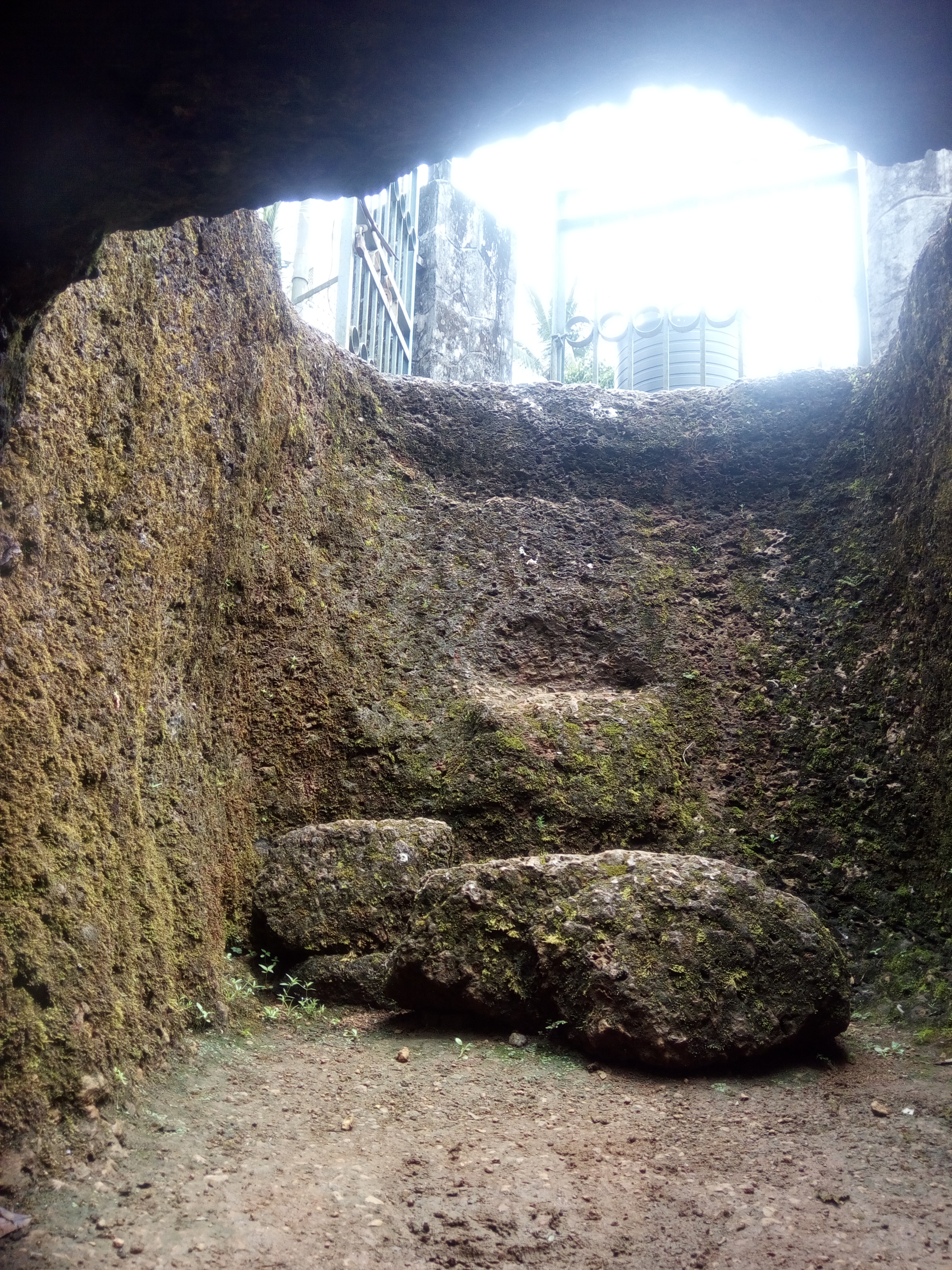 Kandanisseri munimada or rock cave